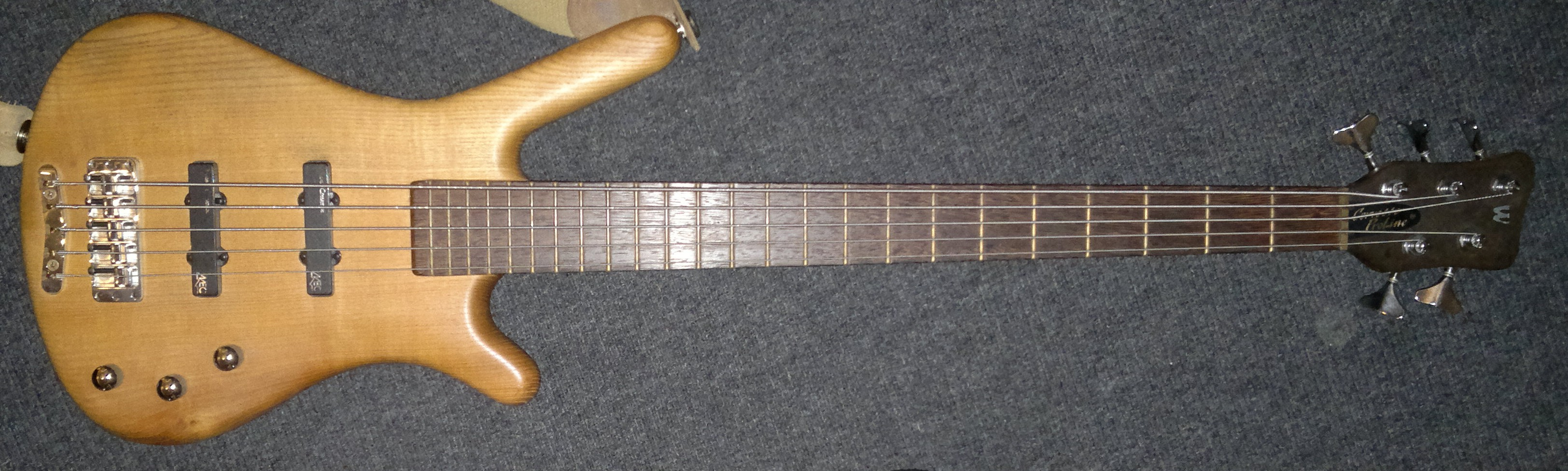 Picture of one the first Warwick Corvette Proline from 1992 (according to munufacturer). Serial Number: G 000122 92.